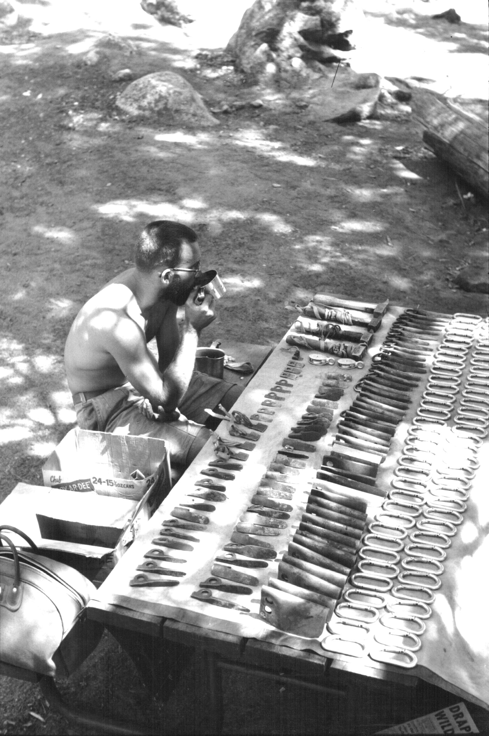 ONE CUP OF TEA, Robbins sorts hardware for the Nose of El Capitan, Yosemite Valley, California, second ascent, seven days, September 1960, by Royal Robbins, Chuck Pratt, Joe Fitschen, and Tom Frost. The pitons include: knifeblades, hand-forged Lost Arrows, Bugaboos, standard ring angles, and Bongs to 4 inches. Most of these pitons were handmade by Chouinard. Photo taken at the Camp 4 table.